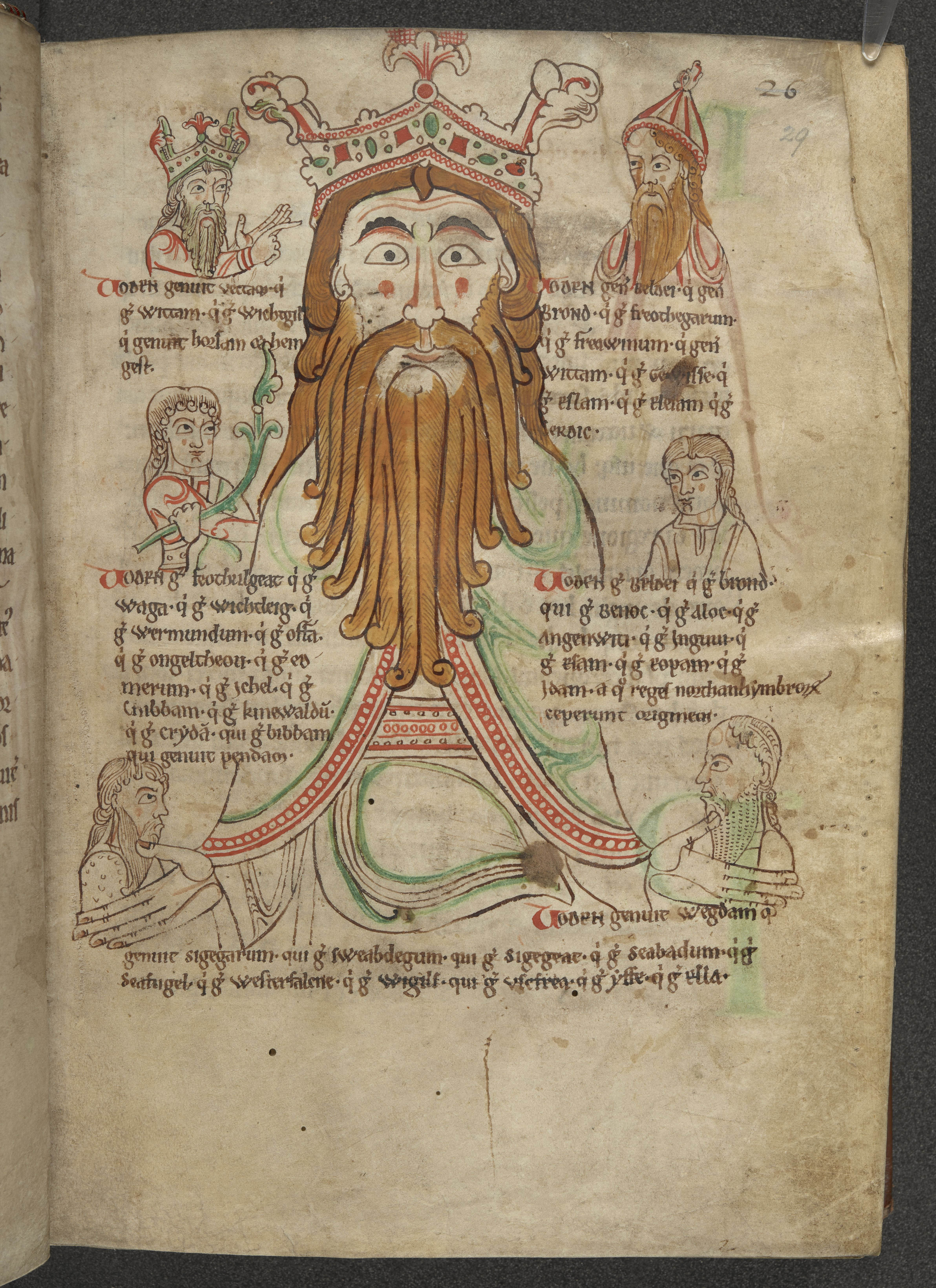 The beginning of the De primo Saxonum adventu, with a portrait of Woden, ancestor of Anglo-Saxon royal lines.